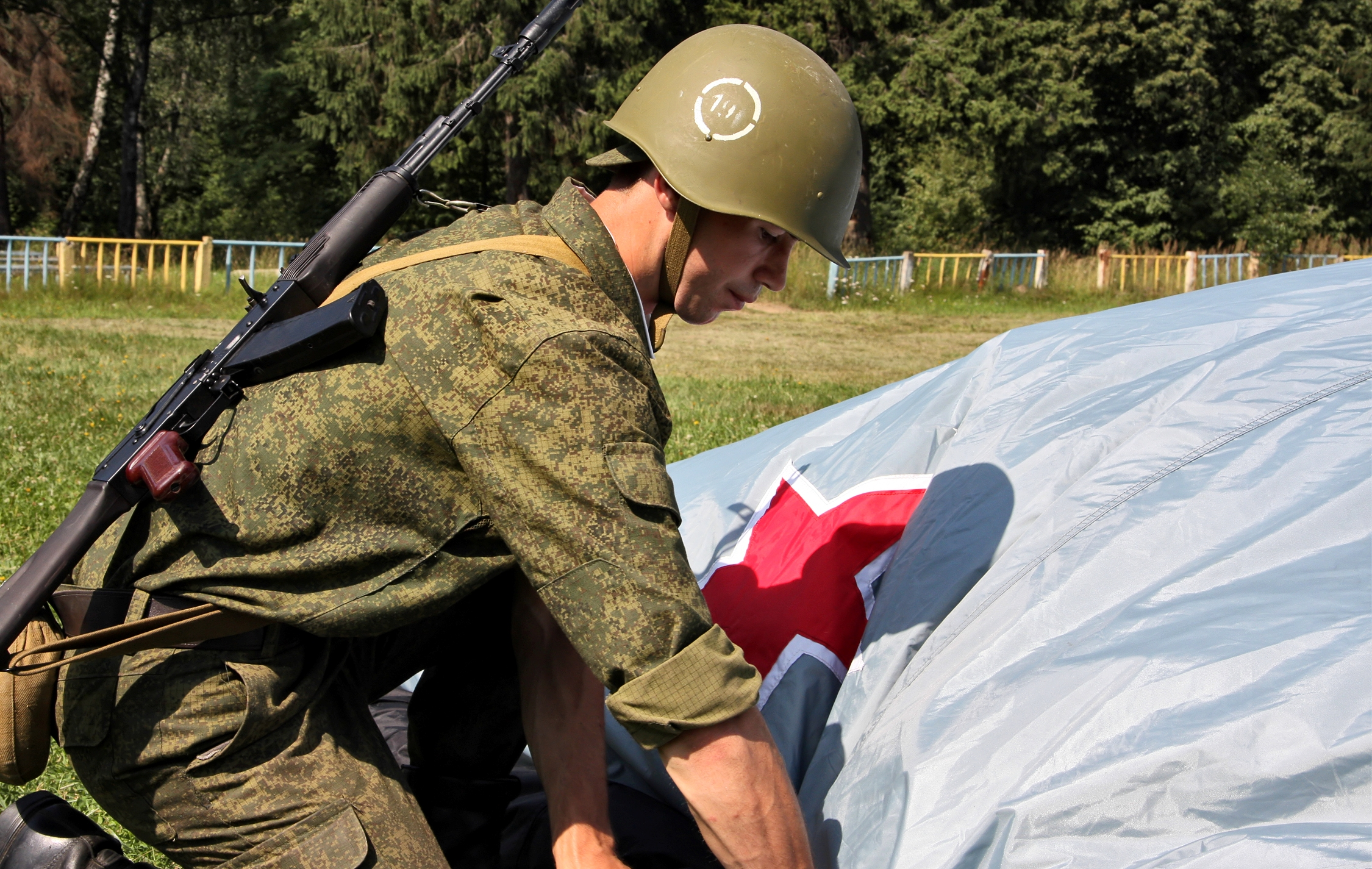 The 45th Separate Engineer-Camouflage Regiment of Russia.